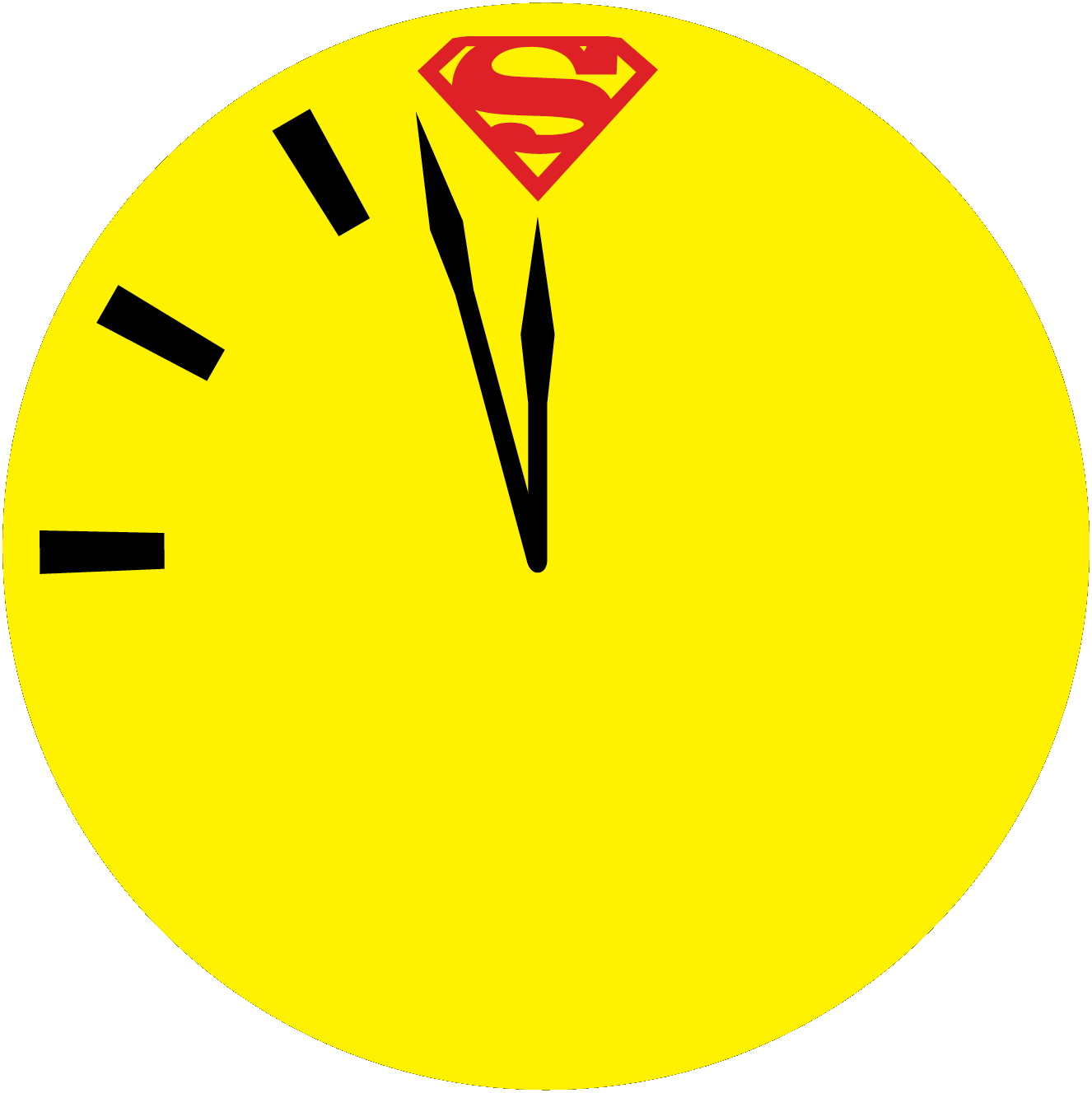 The "Doomsday Clock" teaser image featuring the doomsday clock from Watchmen and the Superman logo.